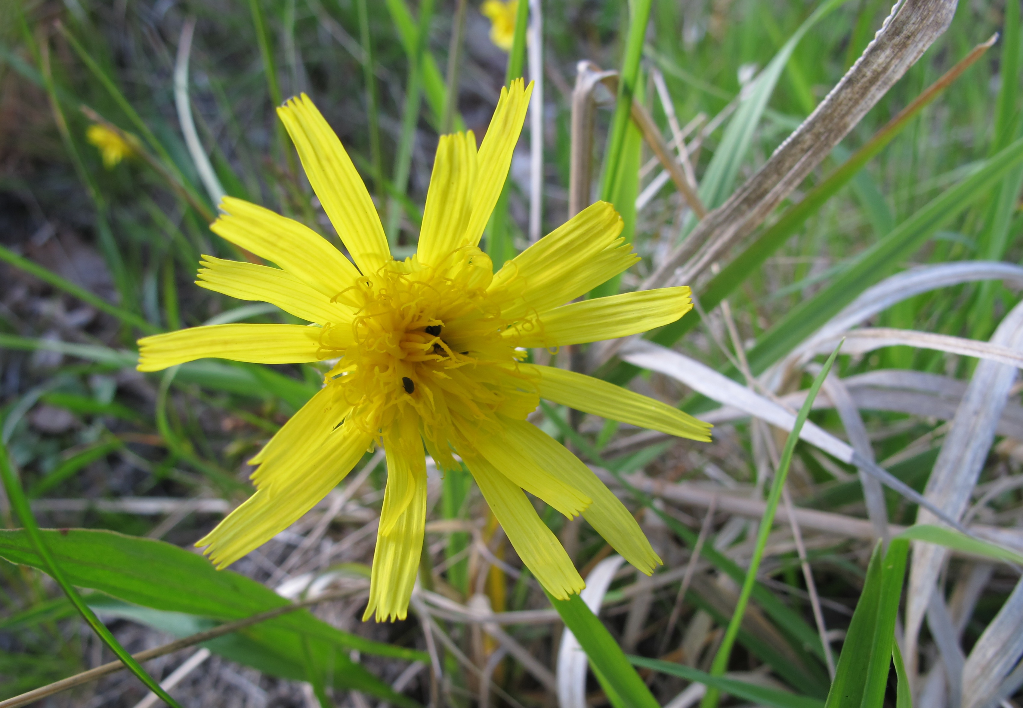 Scorzonera humilis in nature reserve Andělské schody, near Voznice in Příbram District